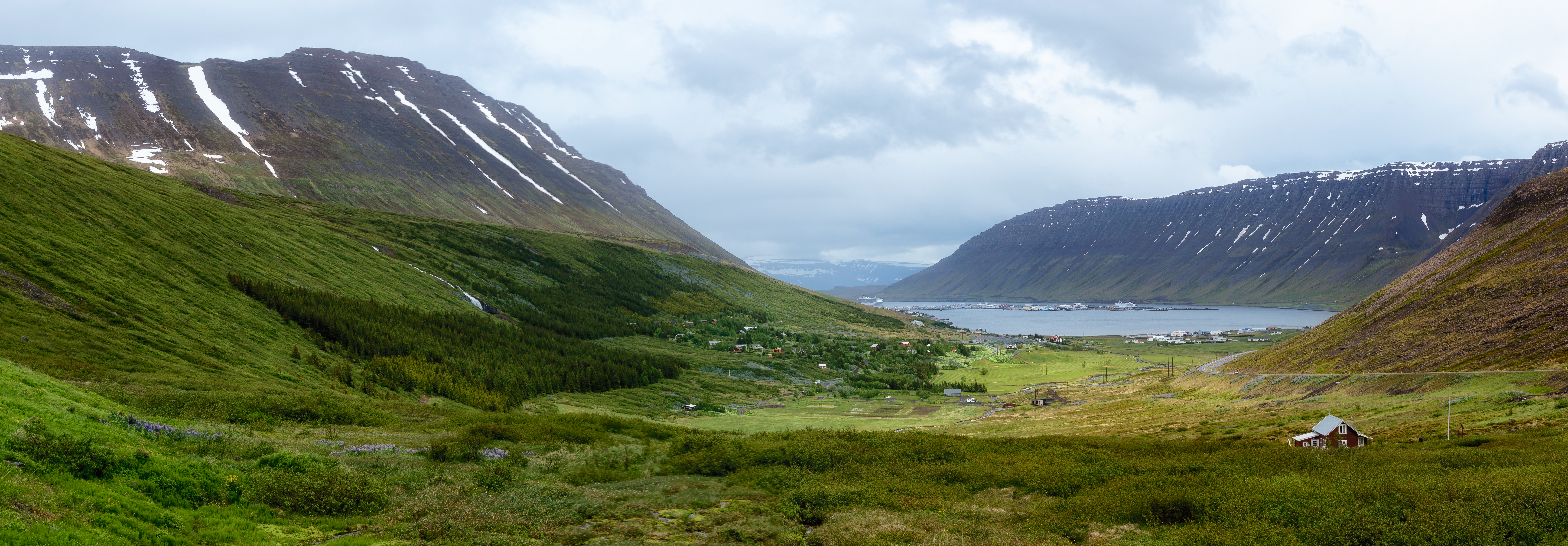 Ísafjörður is the largest town in the Westfjords peninsula, with some 2600 inhabitants.